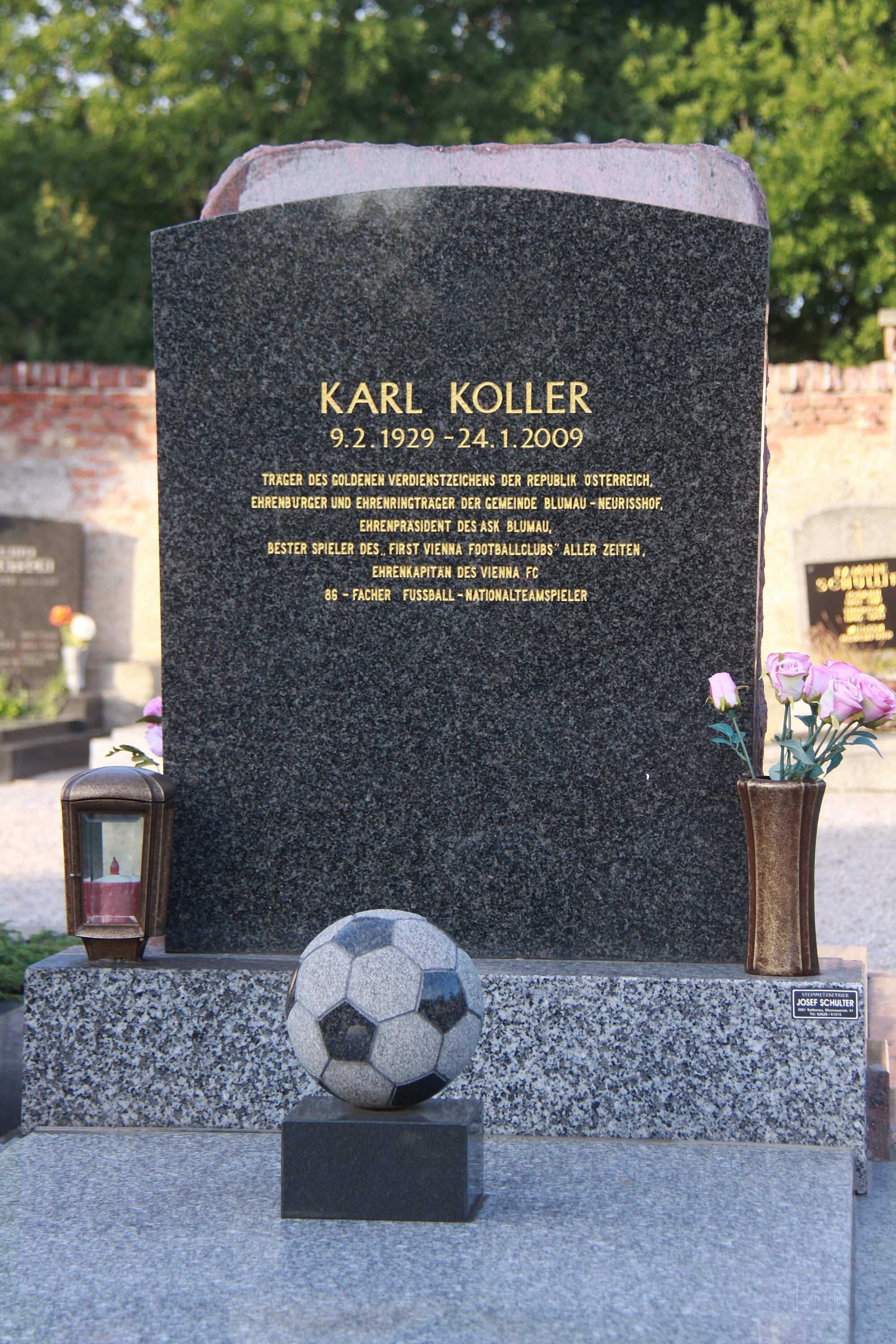 Blumau-Neurißhof - Cemetry, grave of Karl Koller (1929–2009).